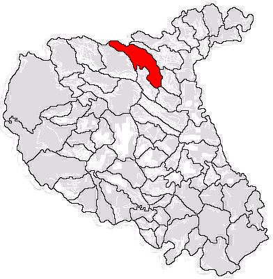 Location of Fitioneşti in Vrancea county. The original image ( was released by the author to the public domain.